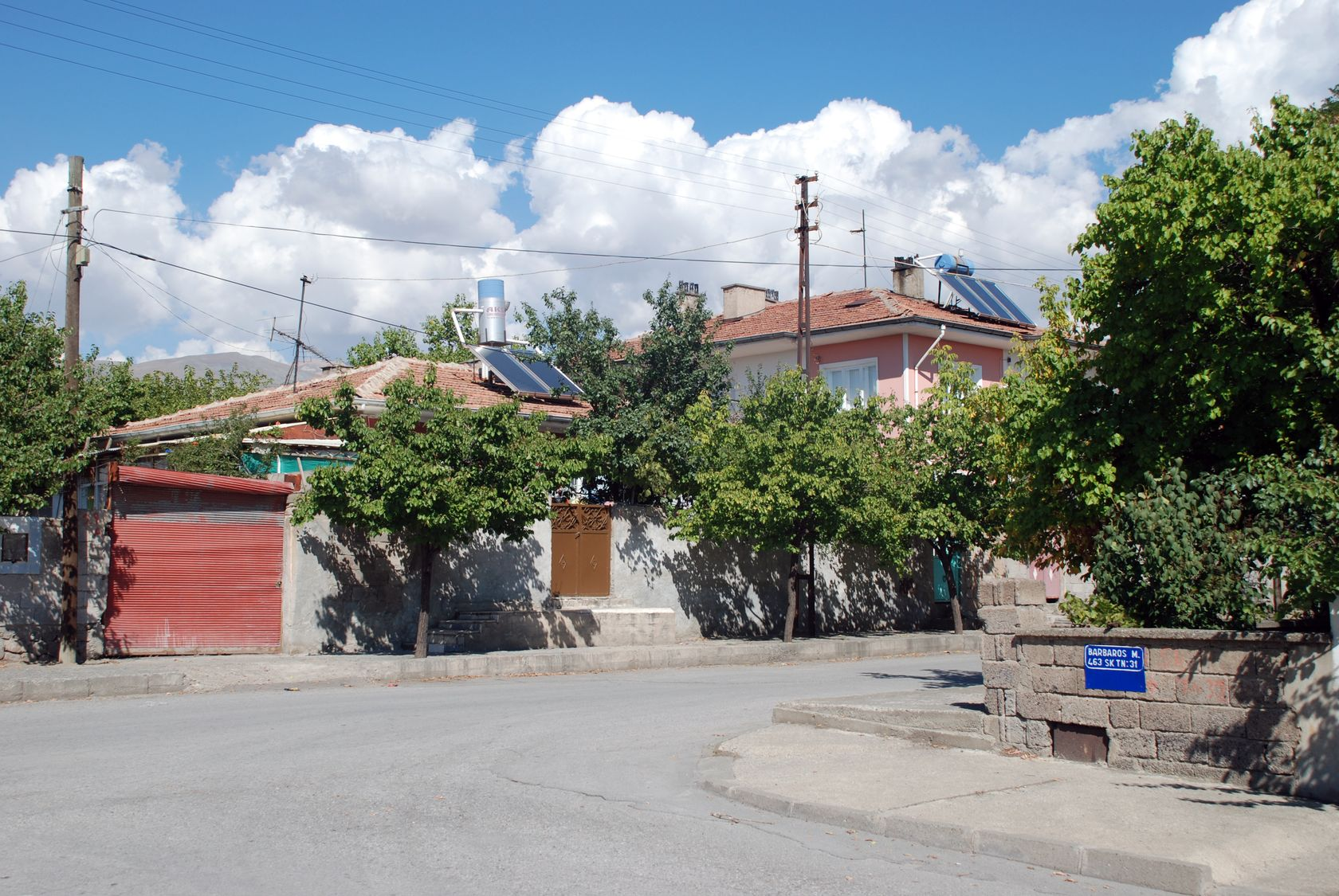 Erzincan, Turkey, north